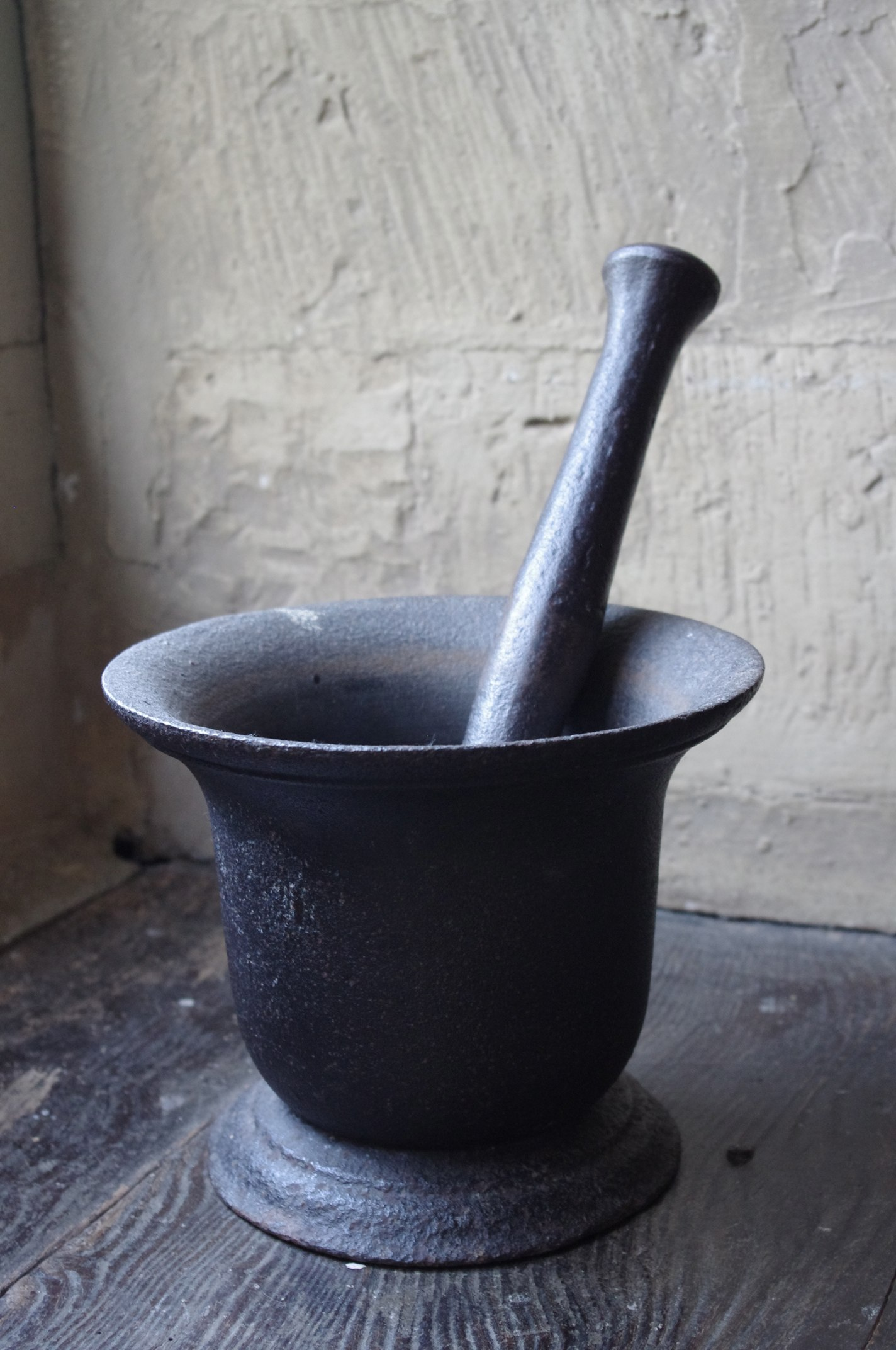 Canons Ashby, Northamptonshire